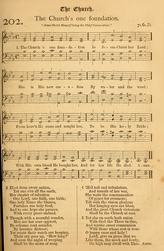 The Church's one foundation, score with complete text